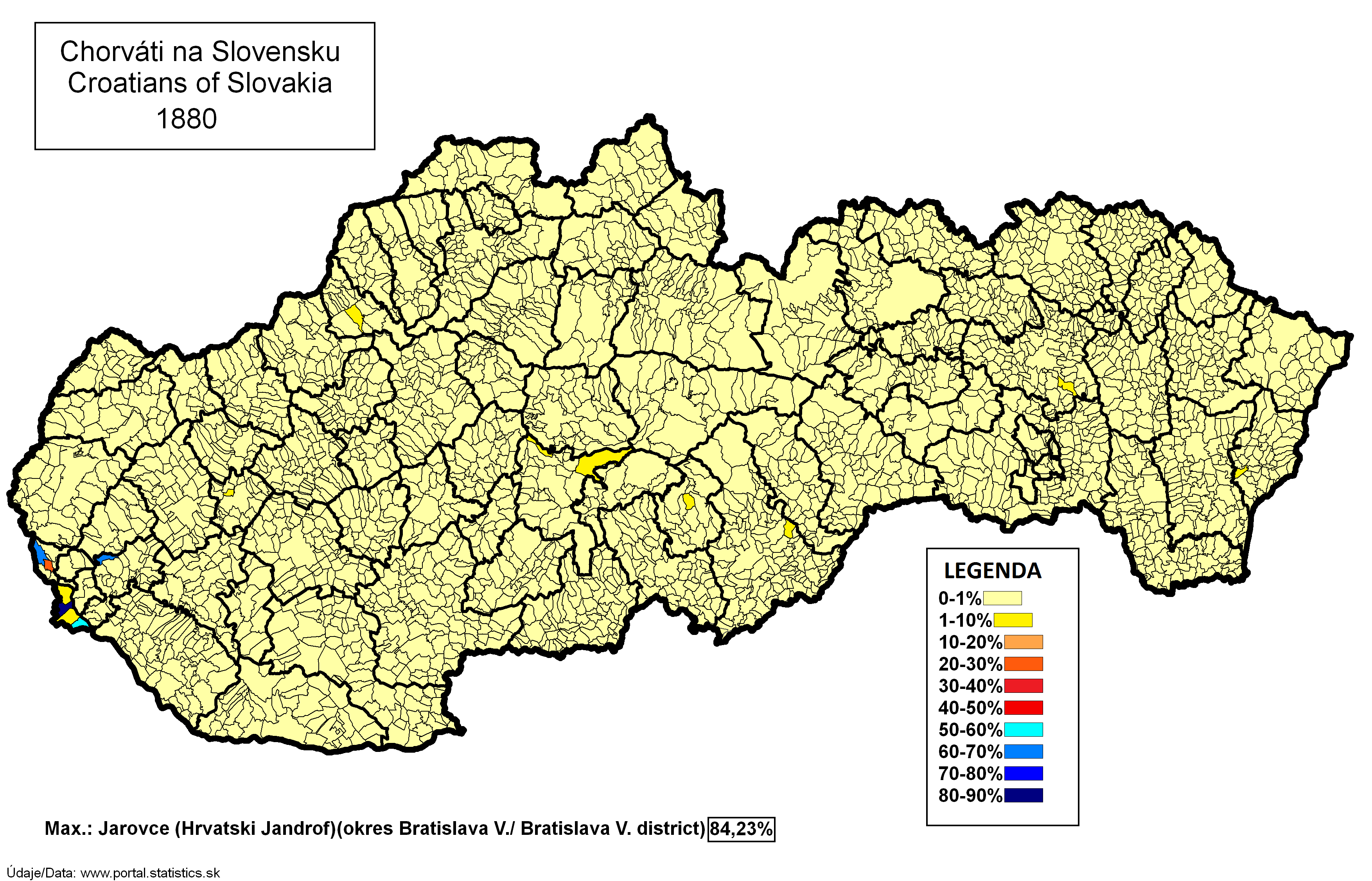 Croatians of Slovakia in 1880.